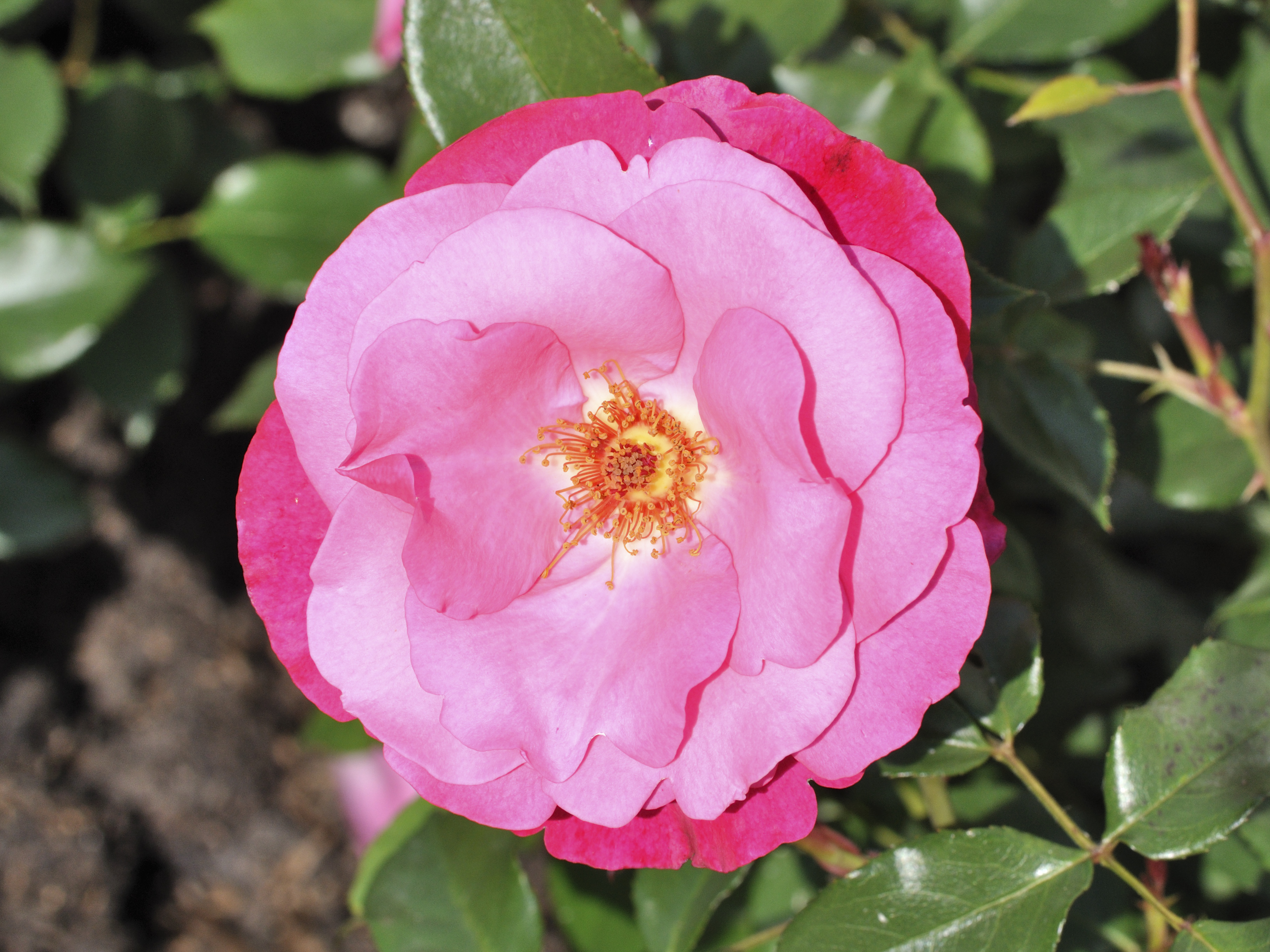 Rosa 'Dolly' Poulsen in Palmengarten, Frankfurt, Germany.